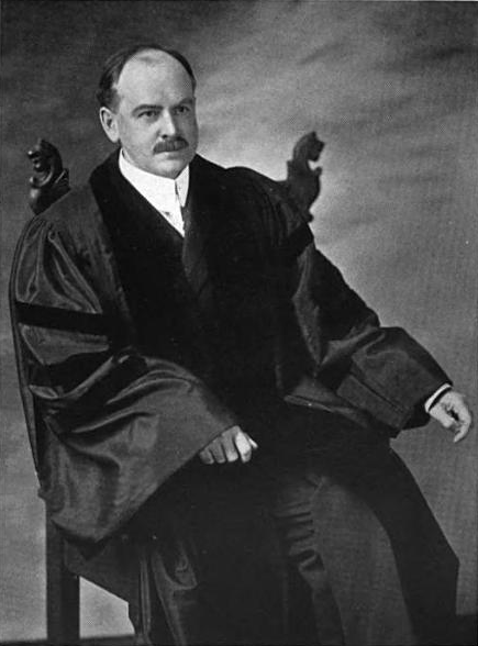 Image of Samuel Charles Black (1869-1921), fourth president of Washington & Jefferson College